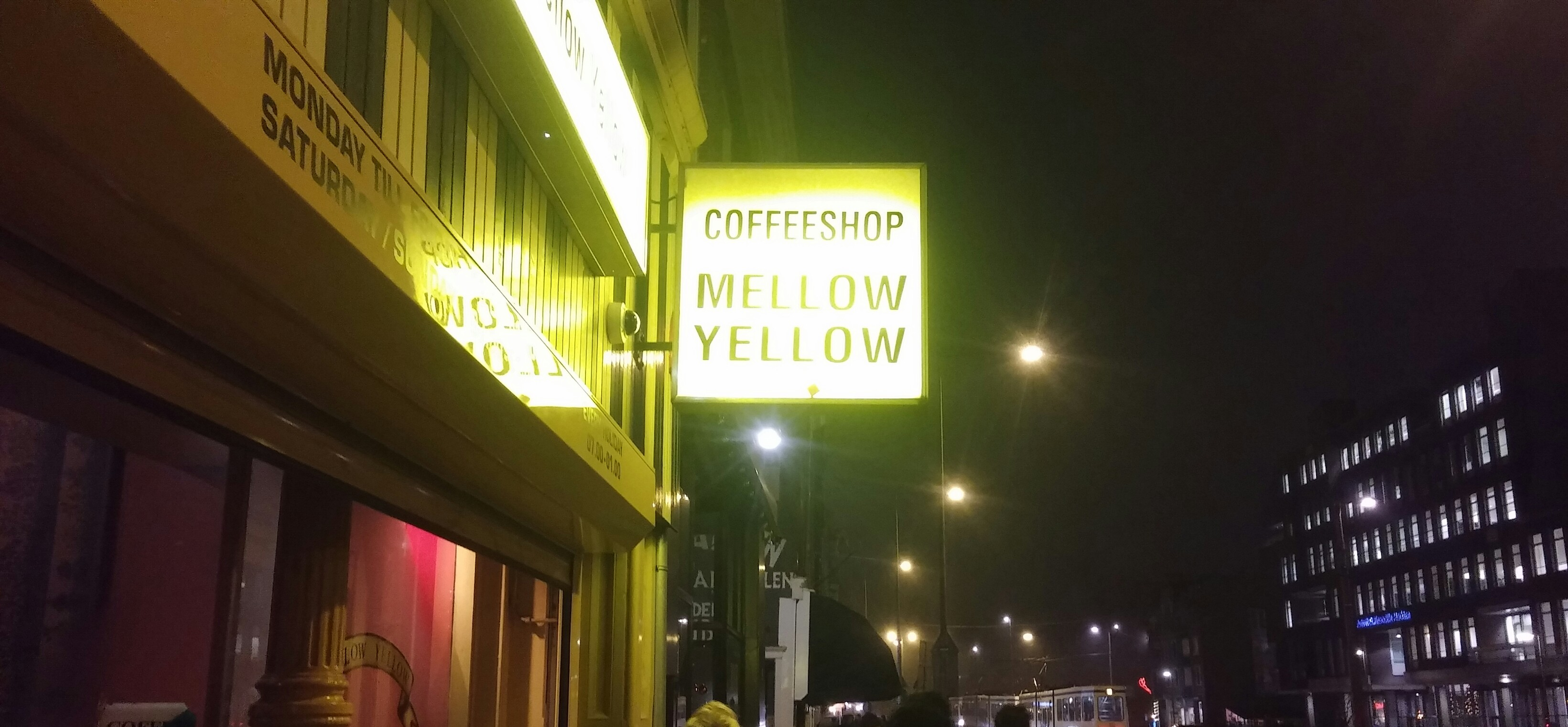 Sign of Mellow Yellow, the oldest cannabis coffee shop in Amsterdam.